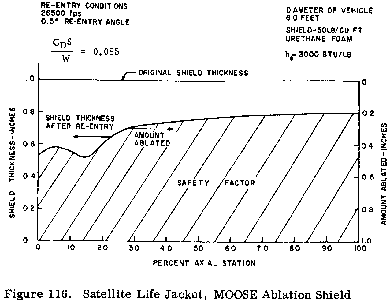 Figure 116. Satellite Life Jacket, MOOSE Ablation Shield Analysis and design of space vehicle flight control systems. Volume 16, page 149